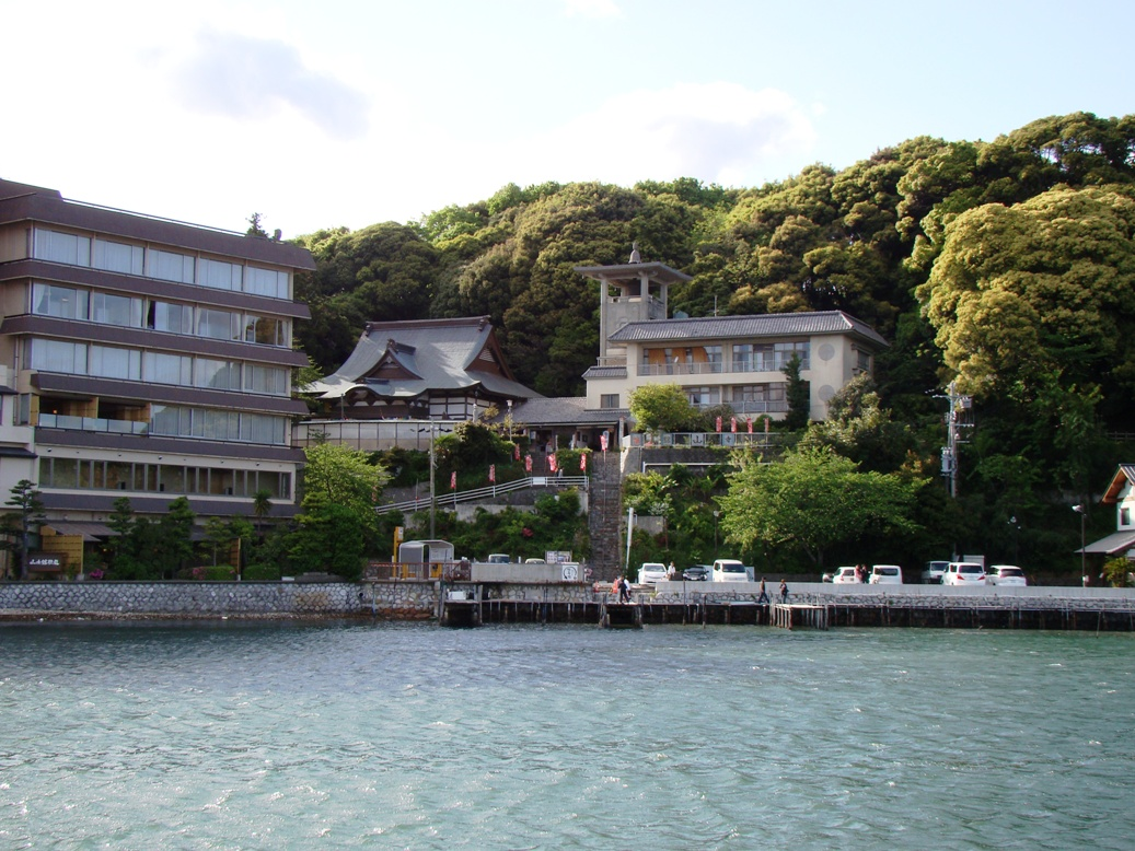 Kanzanji temple in Hamamatsu city Shizuoka Japan